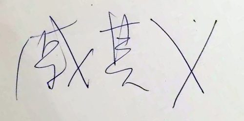 This is Jonathan Chik's signature.